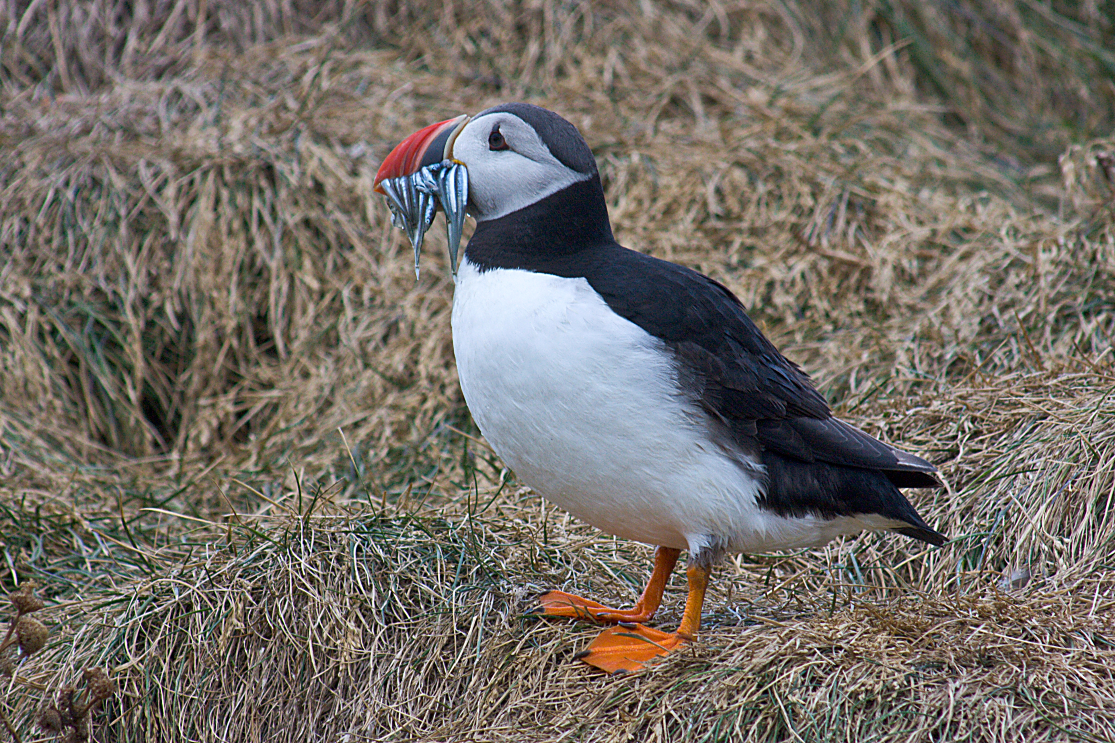 Fratercula arctica on Iceland. The Picture was taken on cliffs near Vík í Mýrdal.